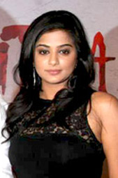 Vivek Oberoi at 'Rakta Charitra - I' press meet